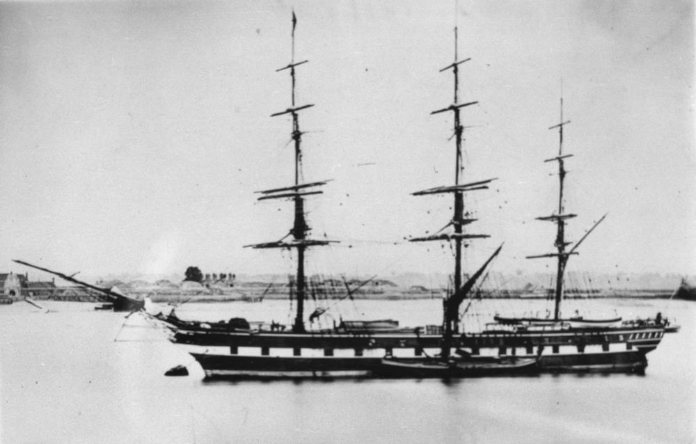 Sailing ship Newcastle This ship was built in 1877 and wrecked in Torres Strait. (Description supplied with photograph).